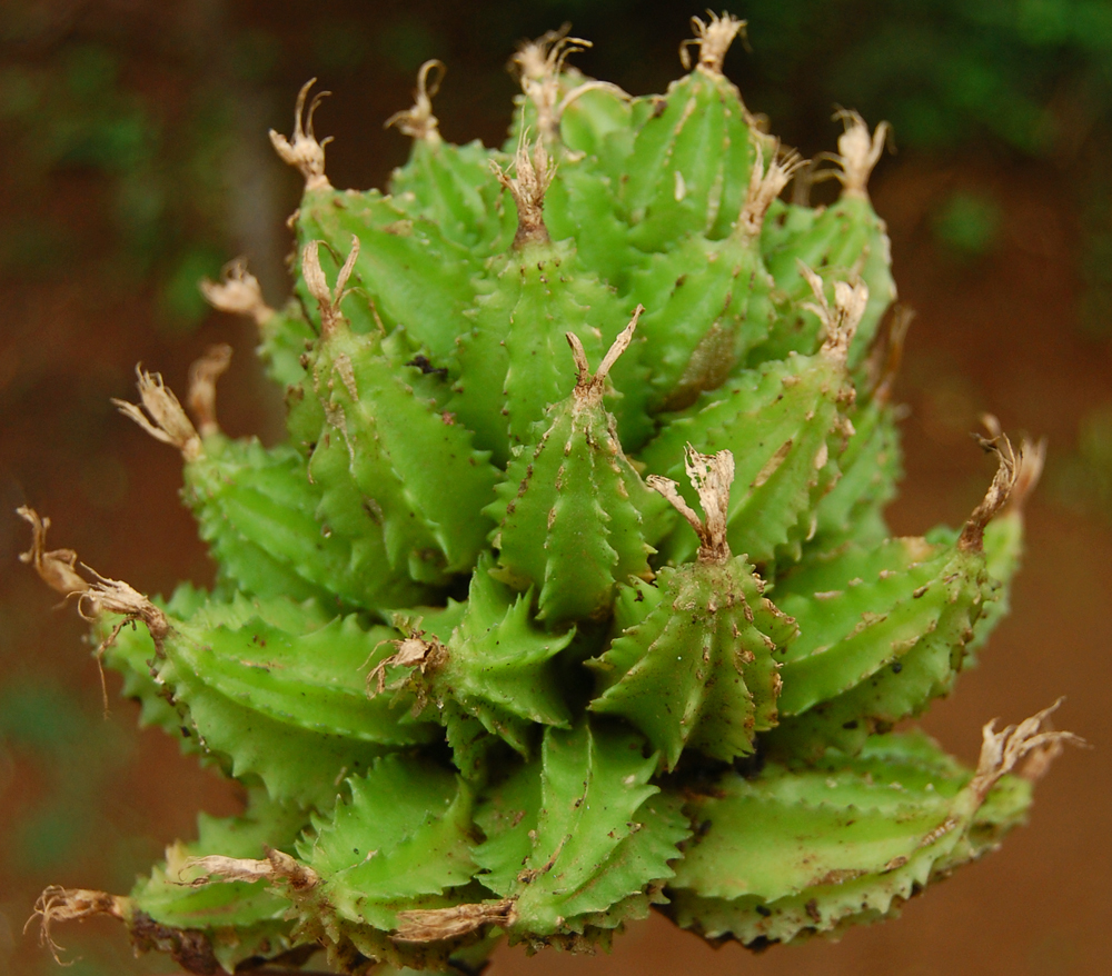 Fruit spike of Amomum cf. dealbatum. From Sukabumi, West Java.